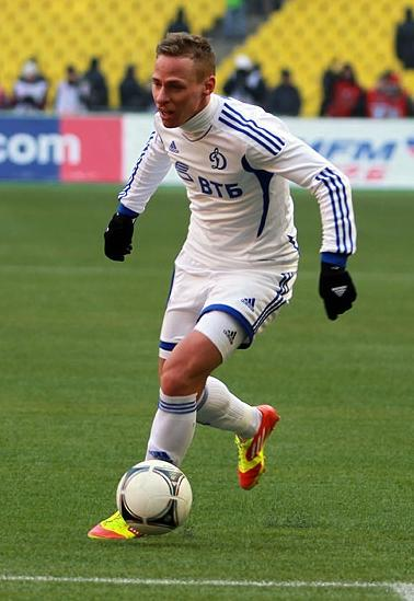 Balázs Dzsudzsák playing for FC Dynamo Moscow in 2012.